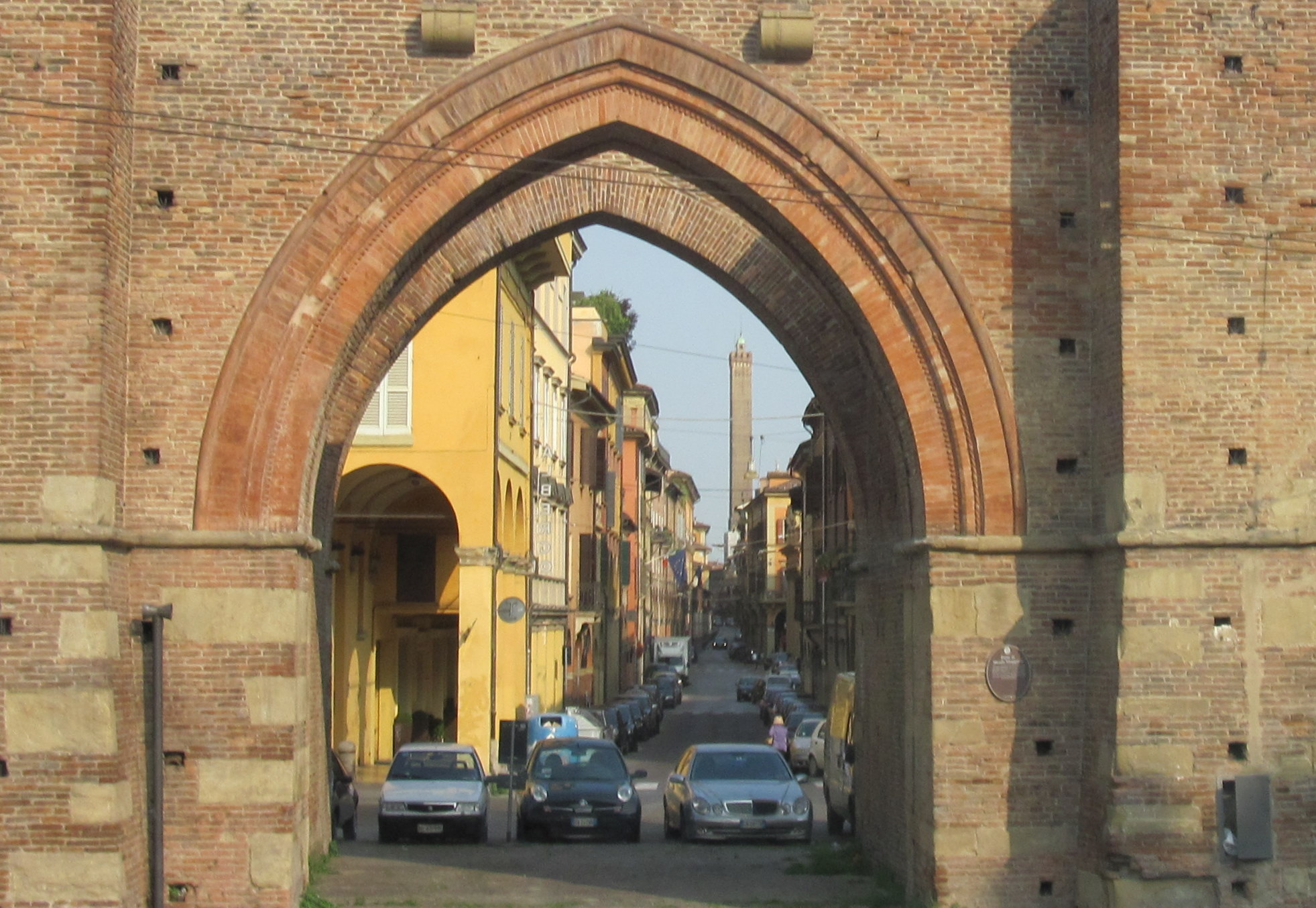 Bologna. Porta Mazzini. Strada Maggiore. Torre degli Asinelli